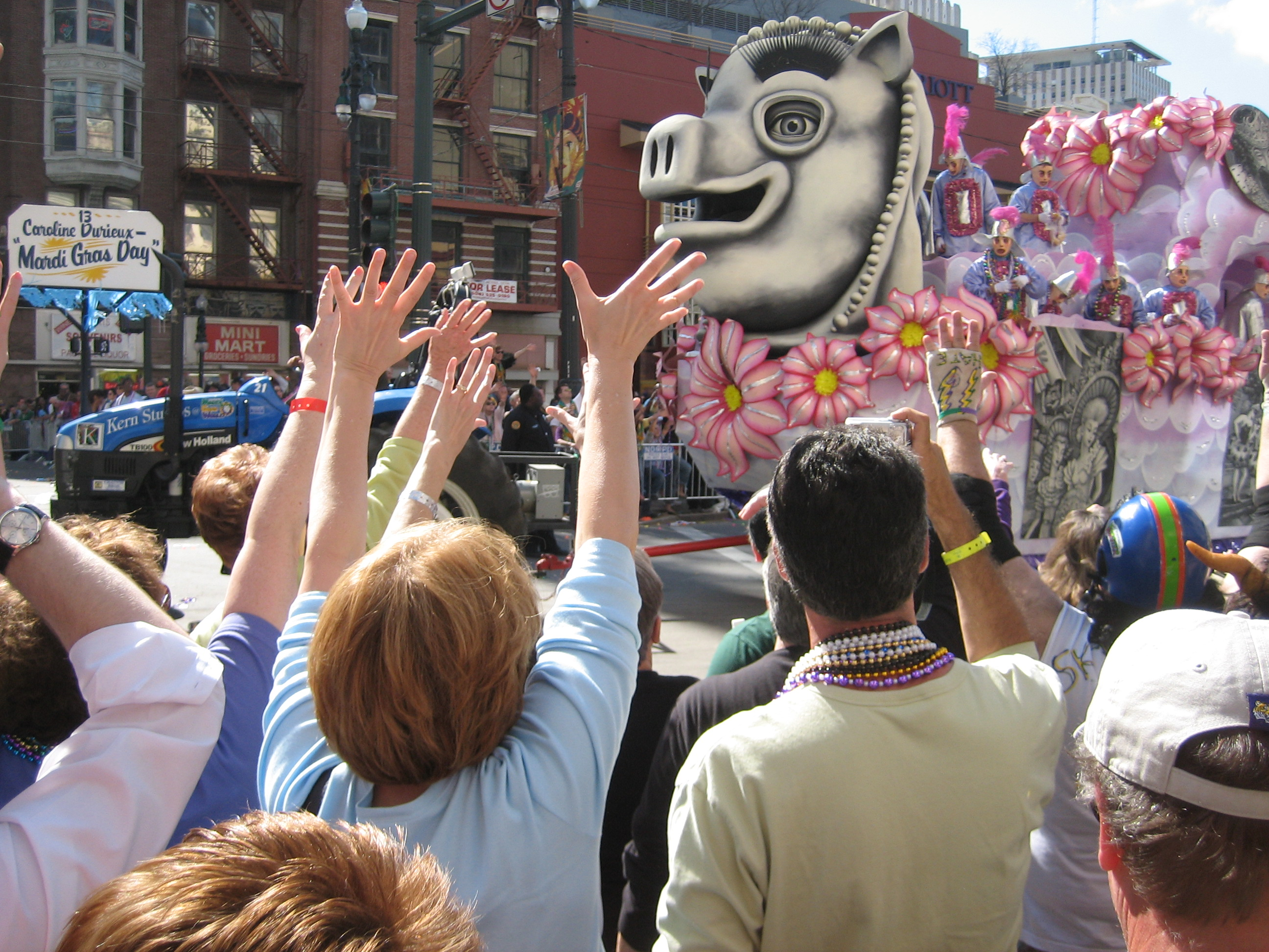 Rex parade, New Orleans, Canal Street, Mardi Gras Day 2006.